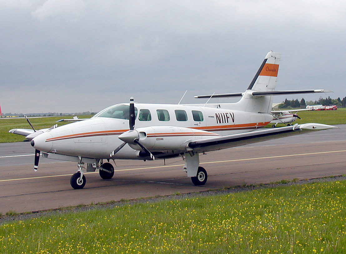 Cessna T303 Crusader (N11FV) at Kemble airfield, Gloucestershire, England. Photographed by Adrian Pingstone in May 2003 and placed in the public domain.